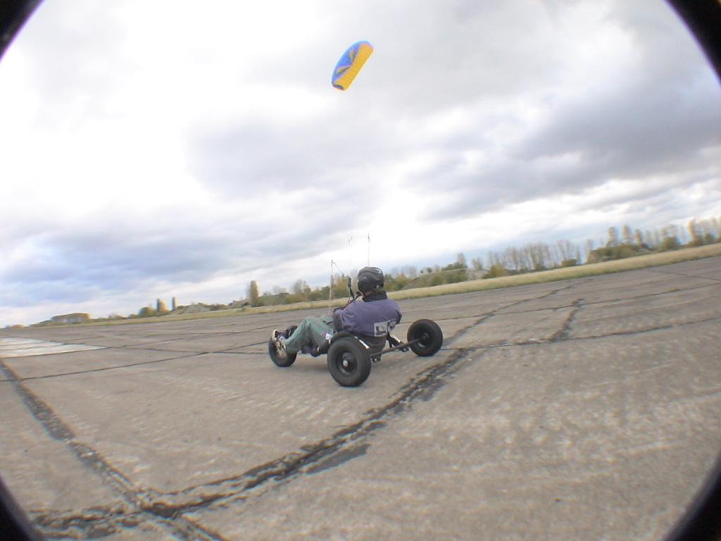 Buggykiting in Milovice, CZ